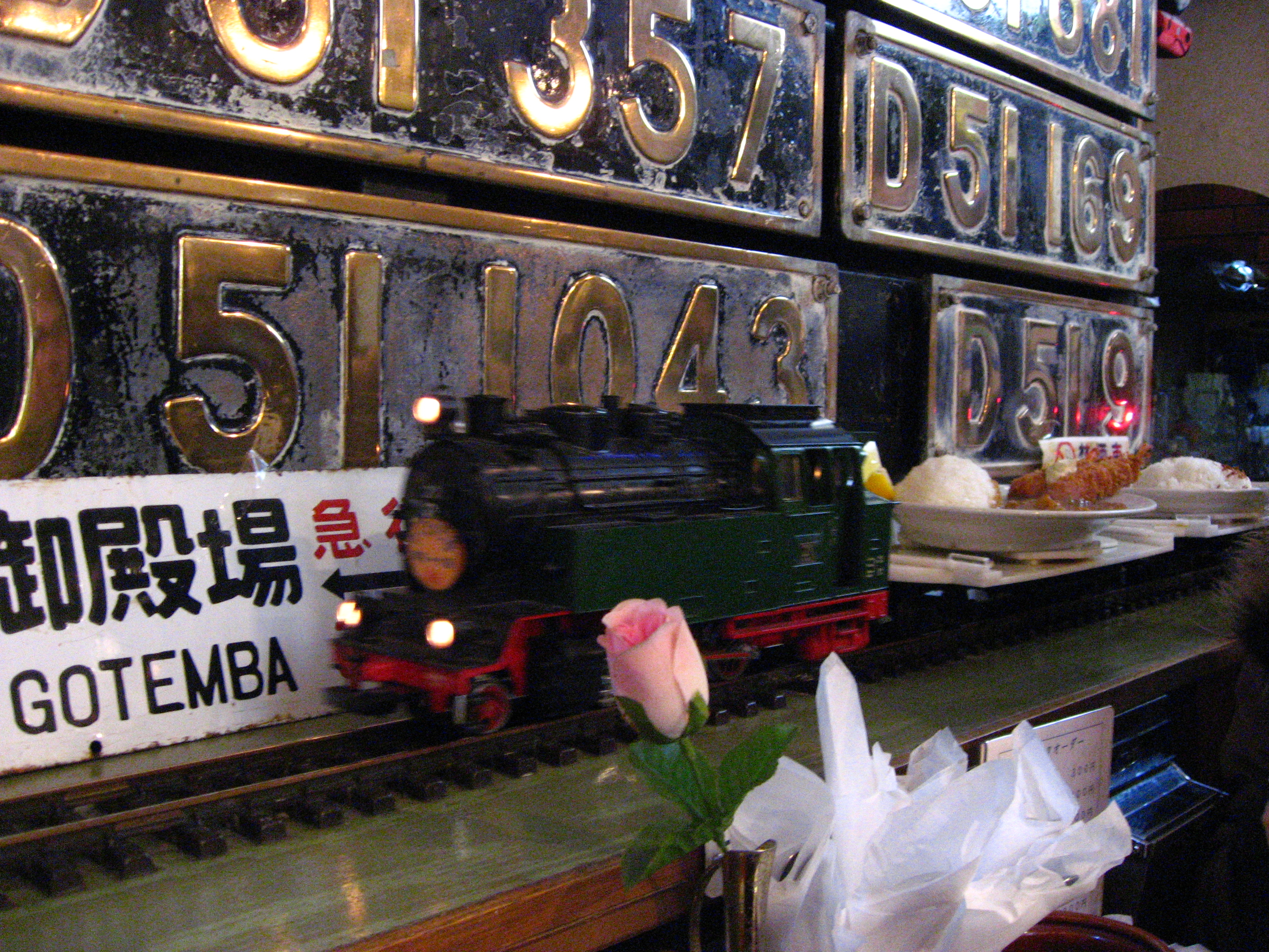 This is at a train-themed curry restaurant. The walls are plastered with nameplates from steam engines, station names signed by their station masters, and other memorabilia.